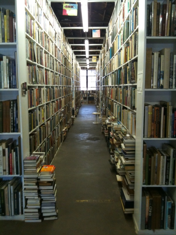 Just one of the dozens of aisles of books at Booked Up in Archer City